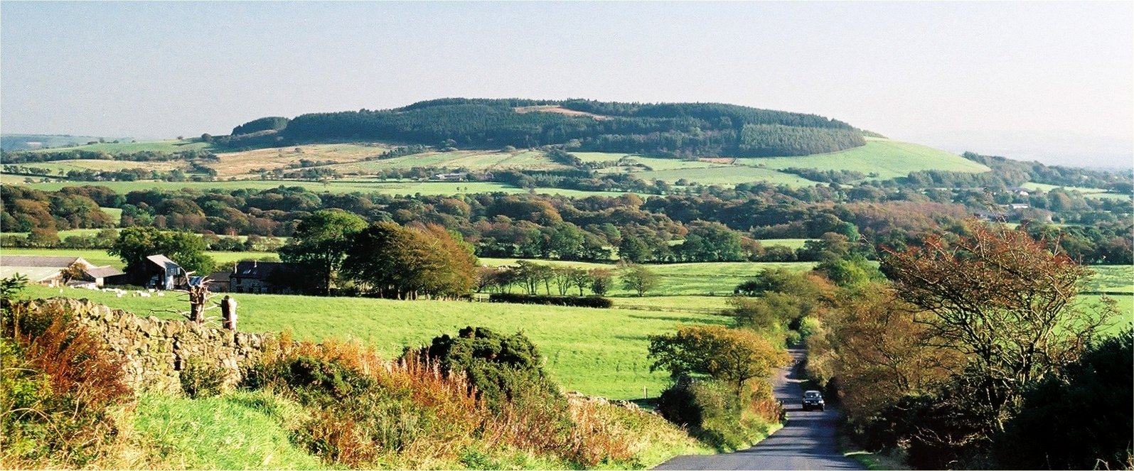 Beacon Fell, in Lancashire, England. Photographed from Delph Quarry.